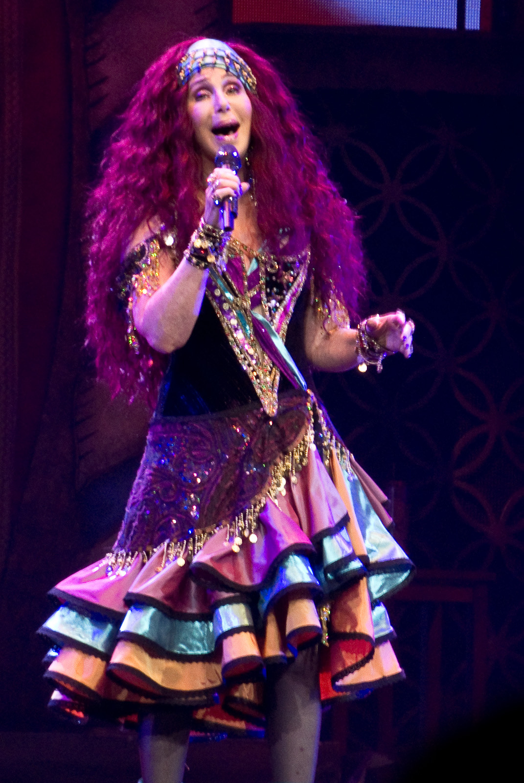 Cher performing live in concert, 2014.